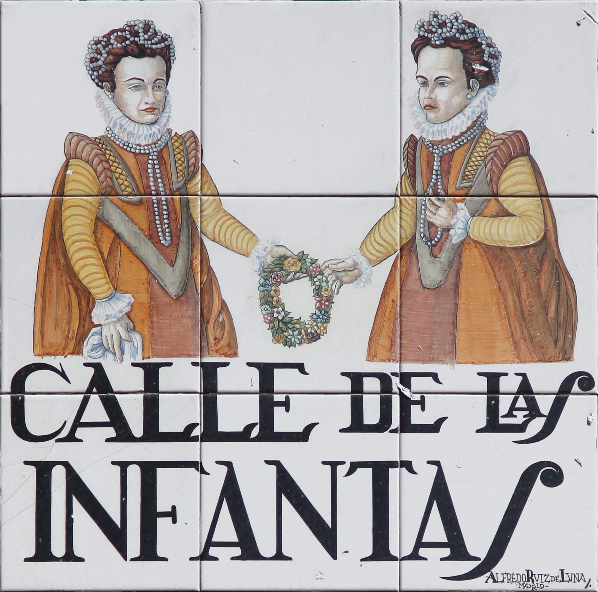 Sign of Calle de las Infantas (street) in Madrid (Spain).